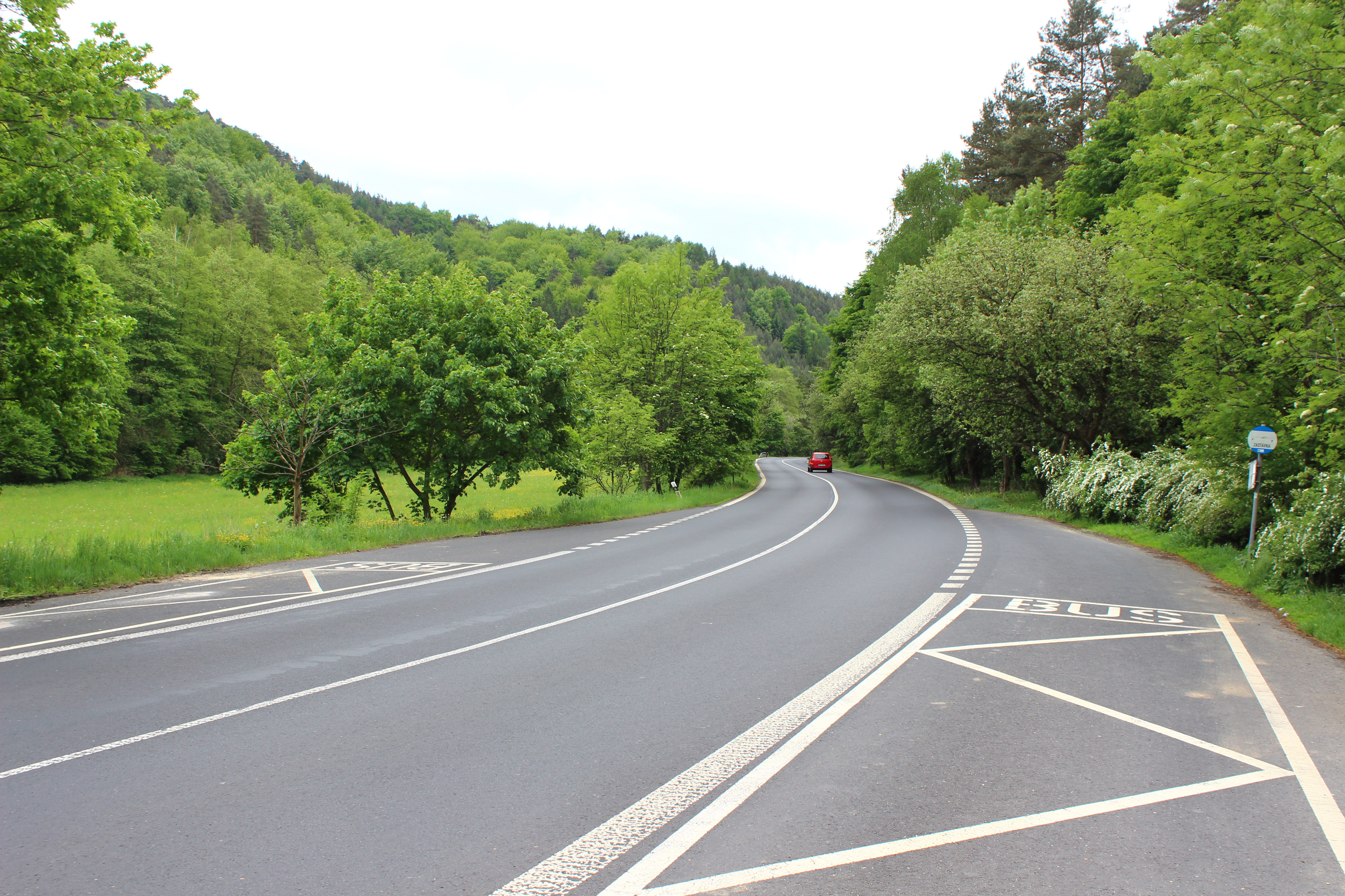 Road No. 9 in Bukovec, part of Dubá municipality, Czech Republic